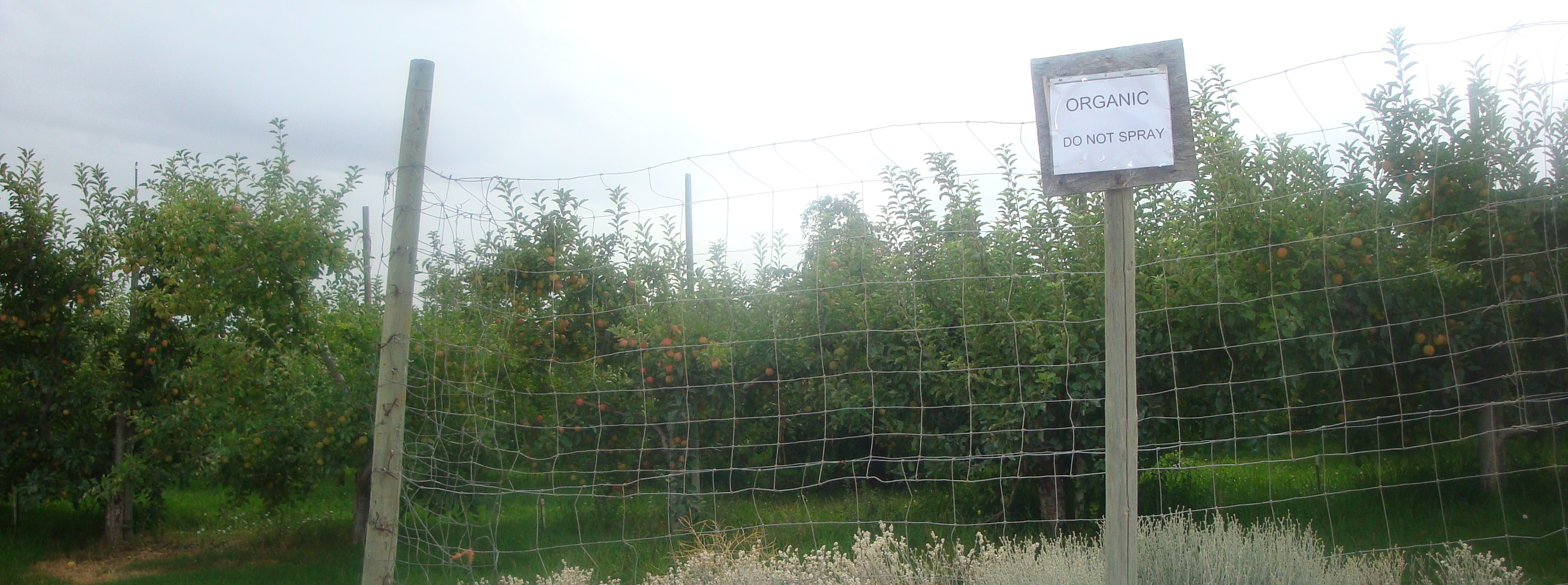 Organic apple orchard in Pateros, Washington, USA